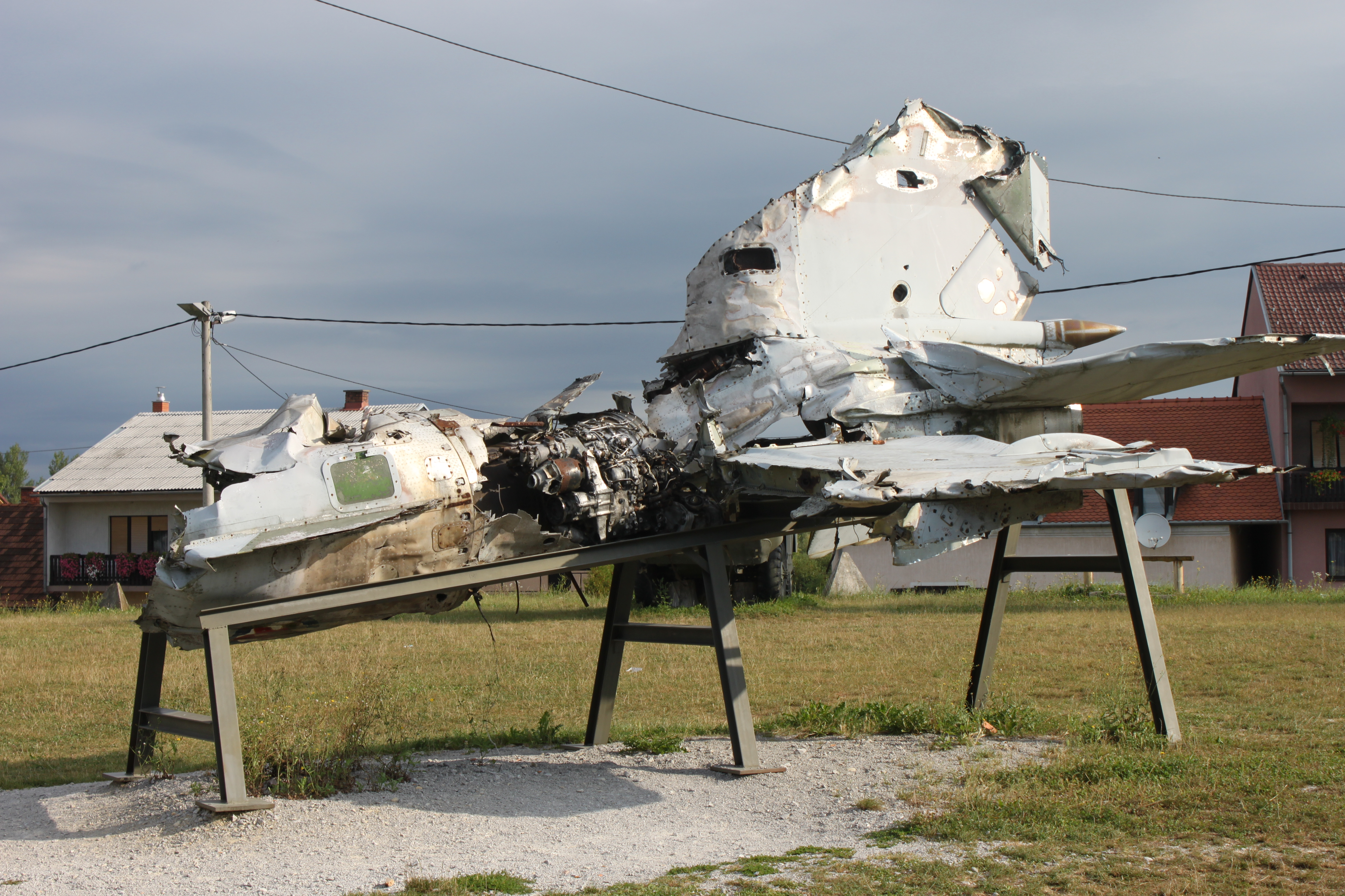 This aircraft was serving with the Yugoslav Air Forces 117 Regiment and was tasked with attacking the village of Saborsko in the present Croatia on the 9th of November 1991. It took off from Željava air base near Bihać in Bosnia but was shot down by AAA during a strafing run.